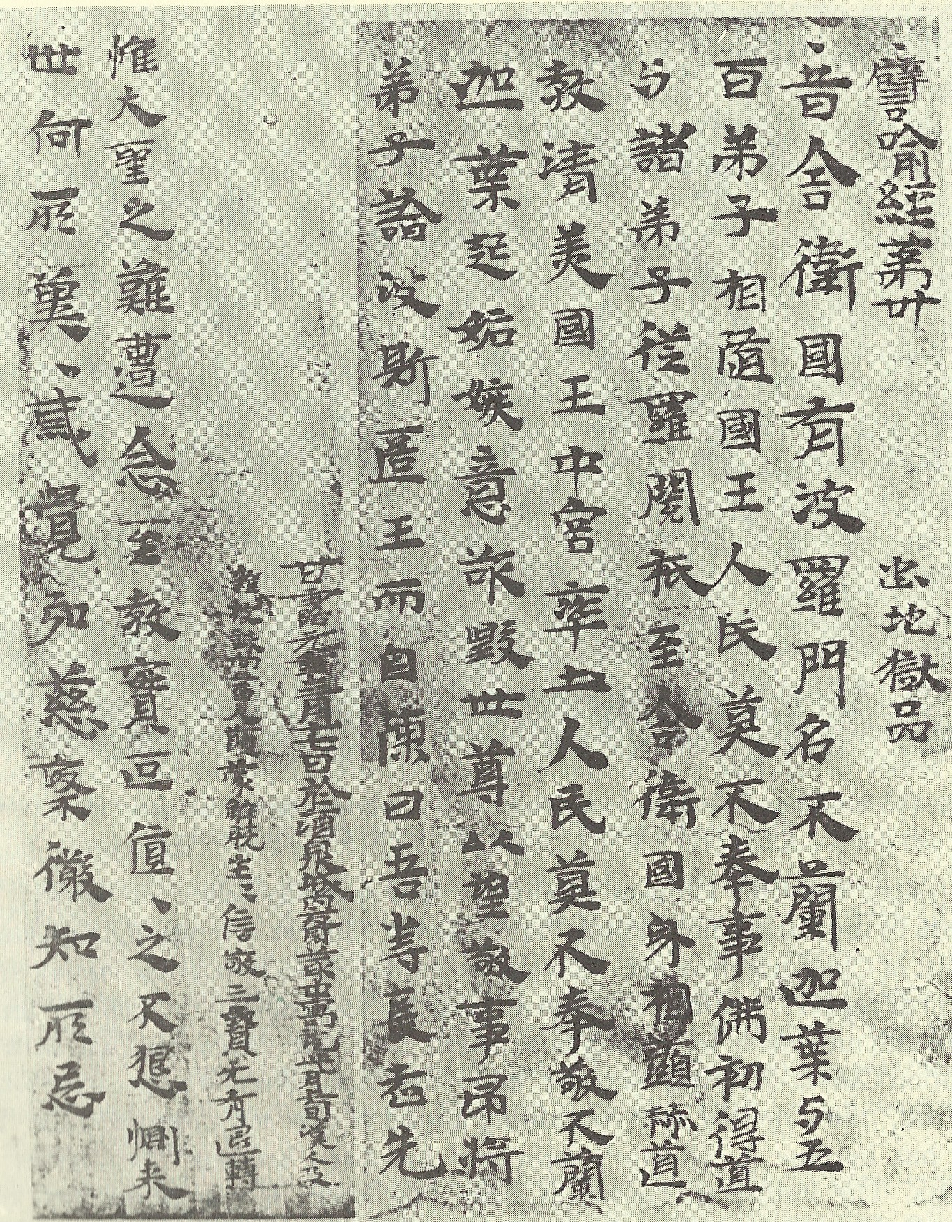 Oldest surviving book on paper, 250 AD. The Phi Yü Ching on "liu-ho" paper made in Liu-ho in northern Chiangsu. It is made from six different materials.